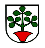 Coat of Arms of Gaukönigshofen